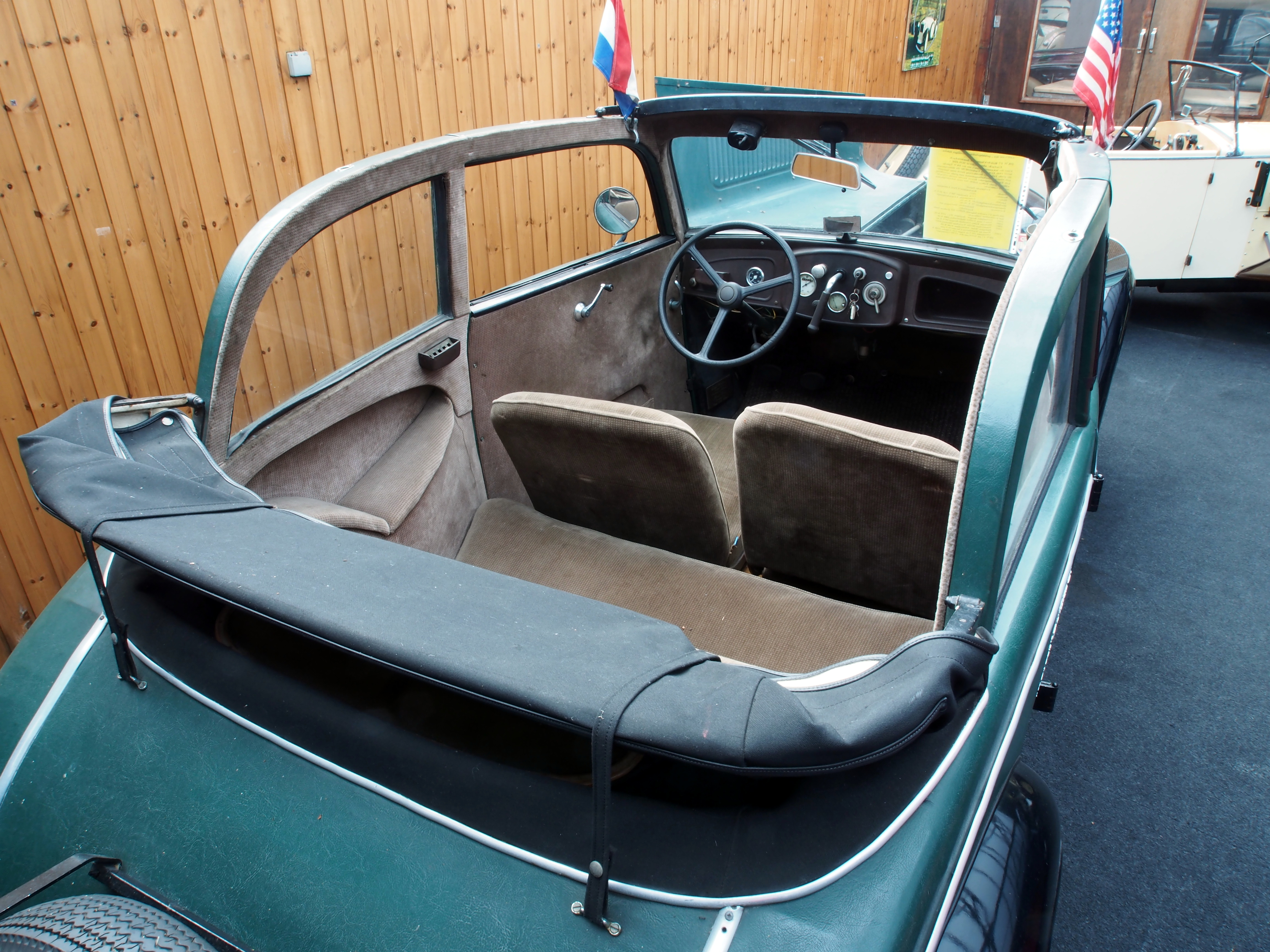 Photographed in the Auto-Union Museum in Bergen, The Netherlands.